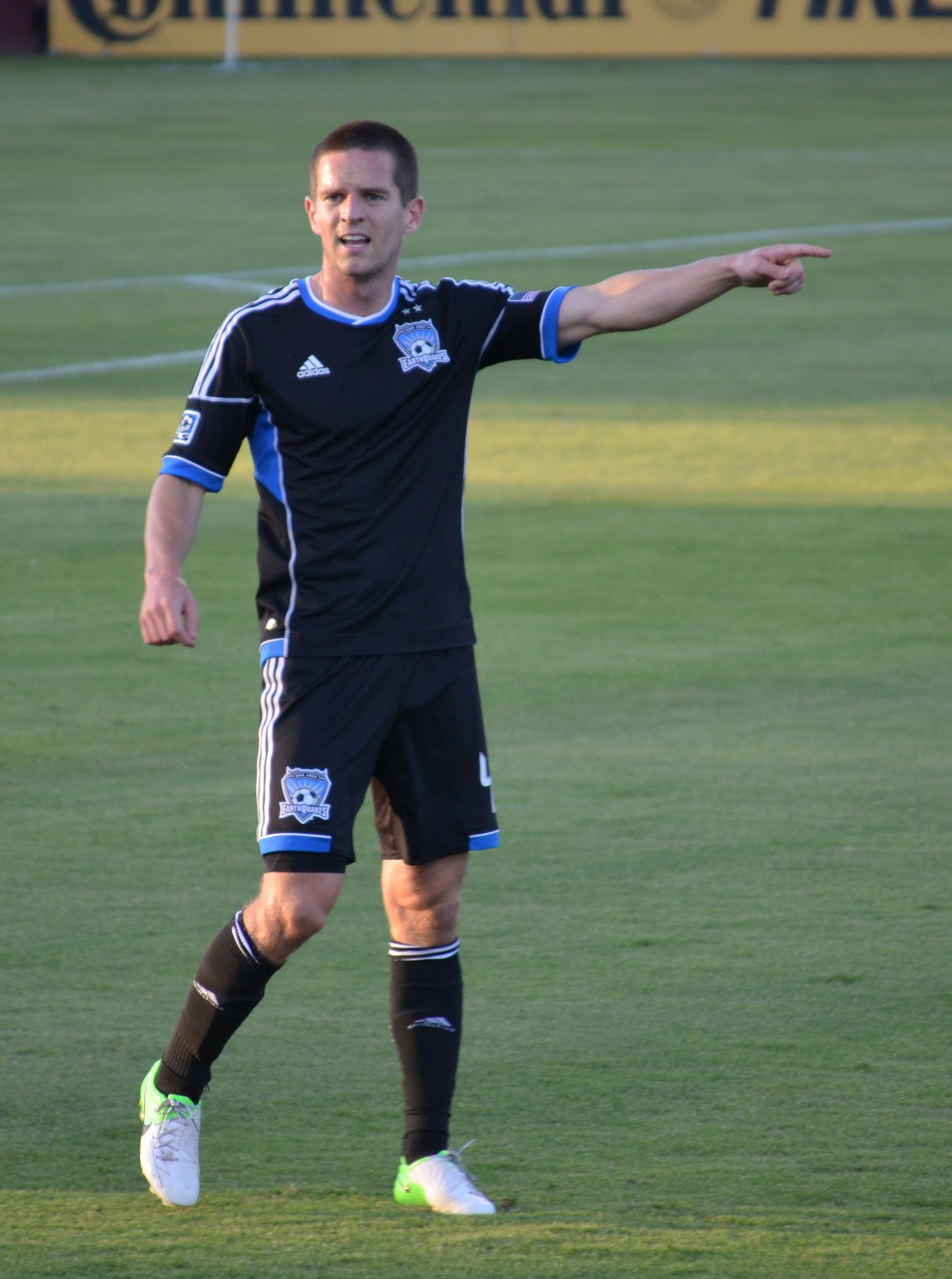 Sam Cronin at Buck Shaw stadium 28 July 2012.